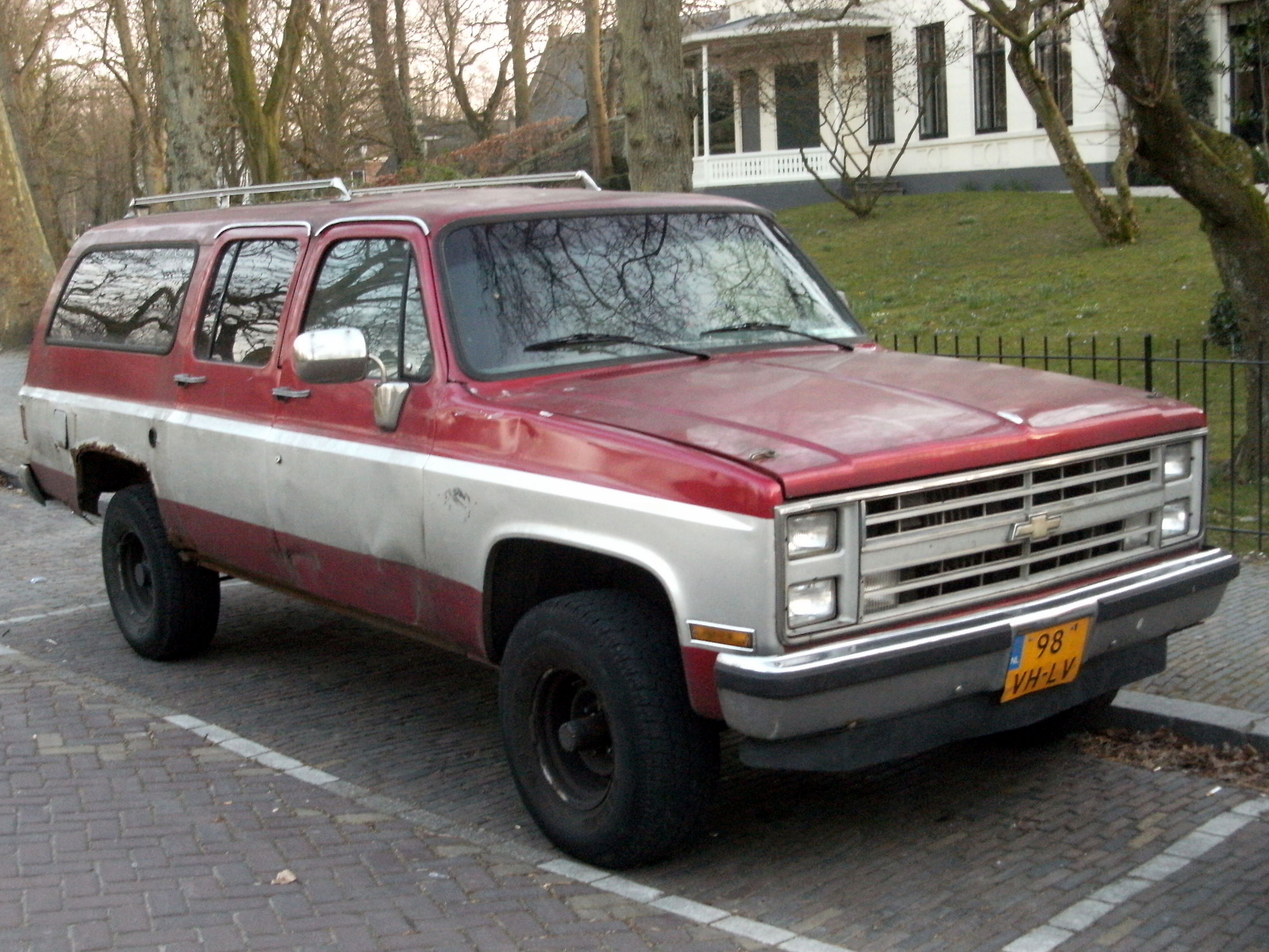 2013-04-01 in Utrecht.